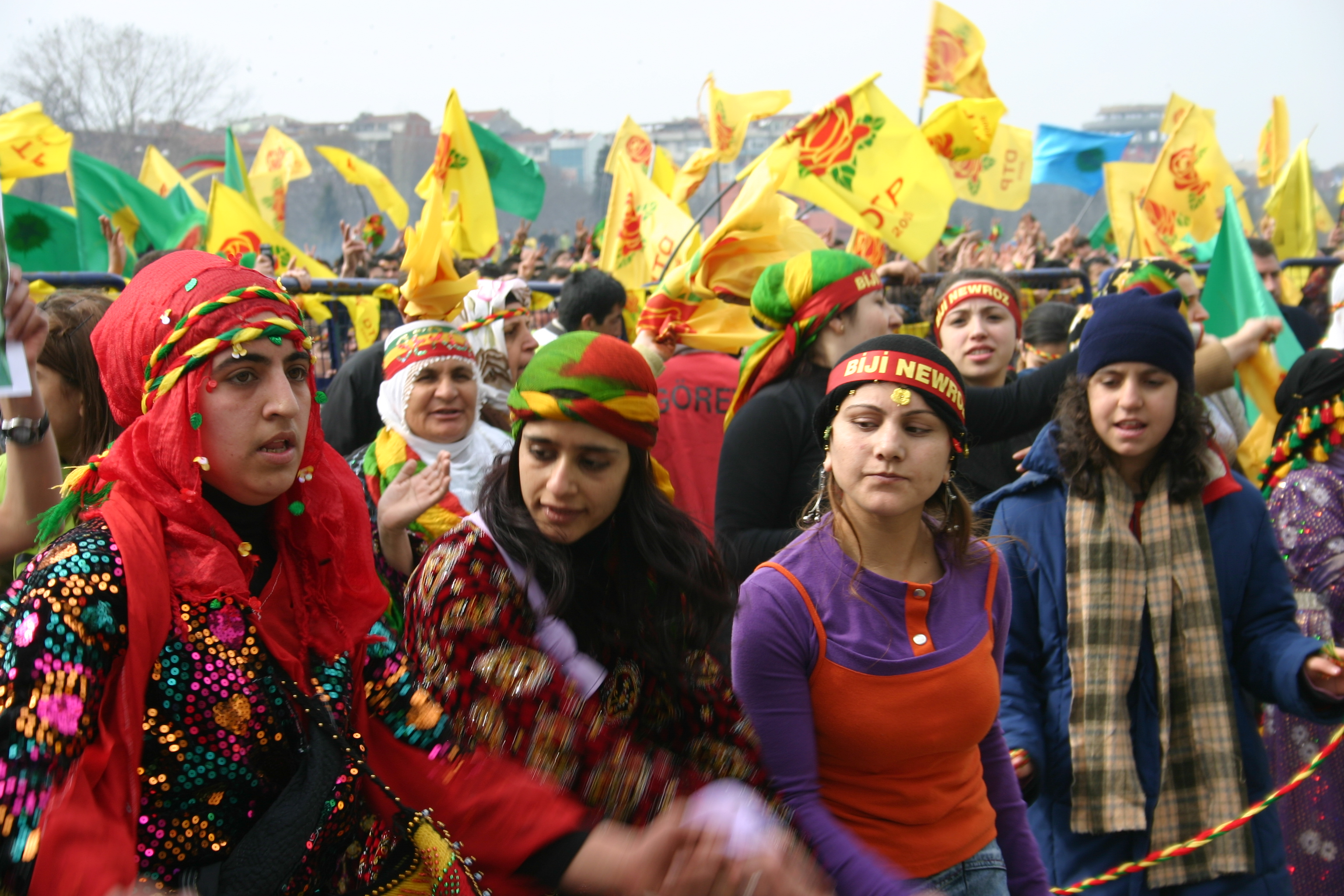 Newroz celebration in Istanbul. Photo by Bertil Videt 2006.